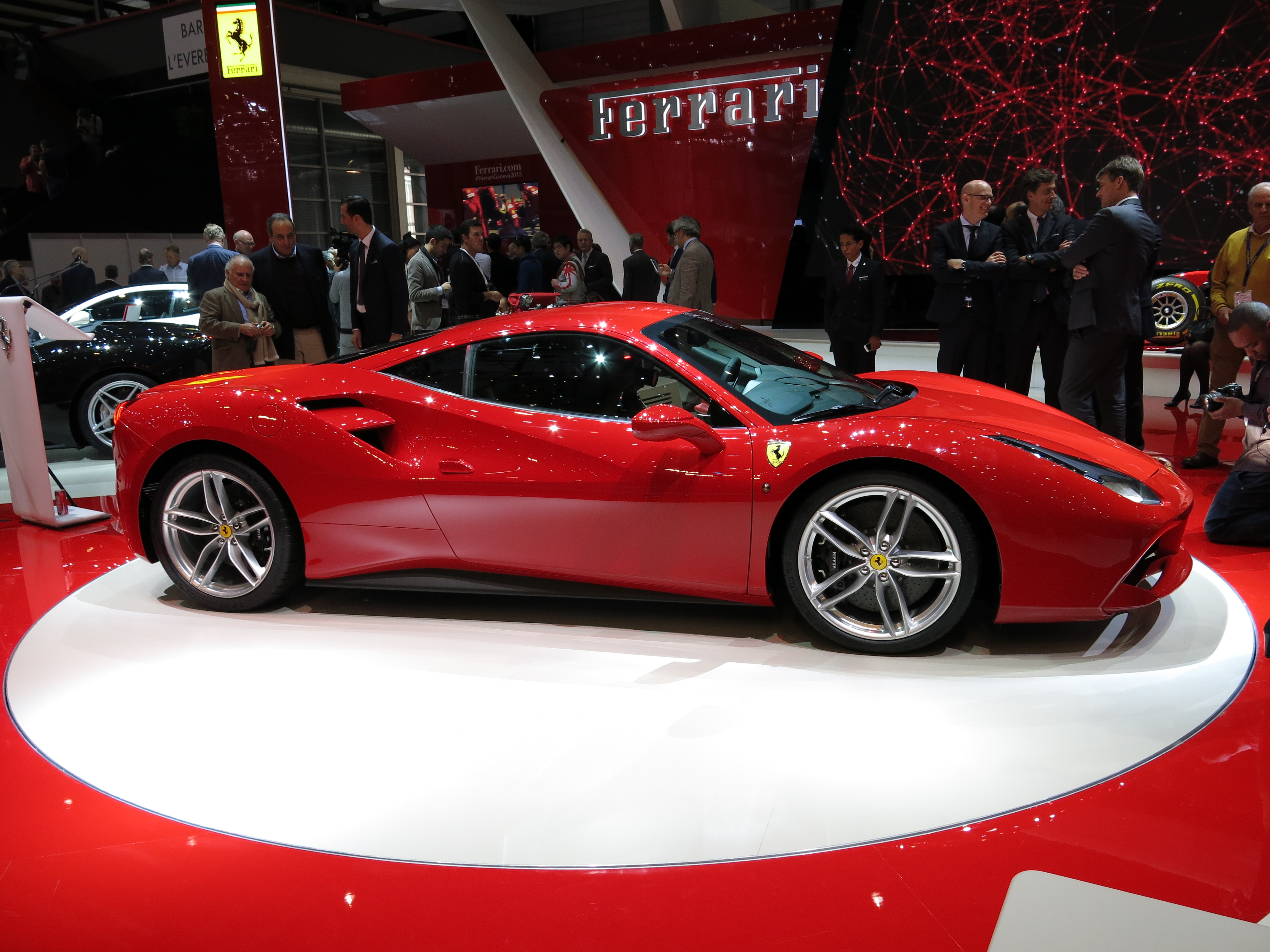 Geneva Motor Show 2015 (photo taken on the first press day)